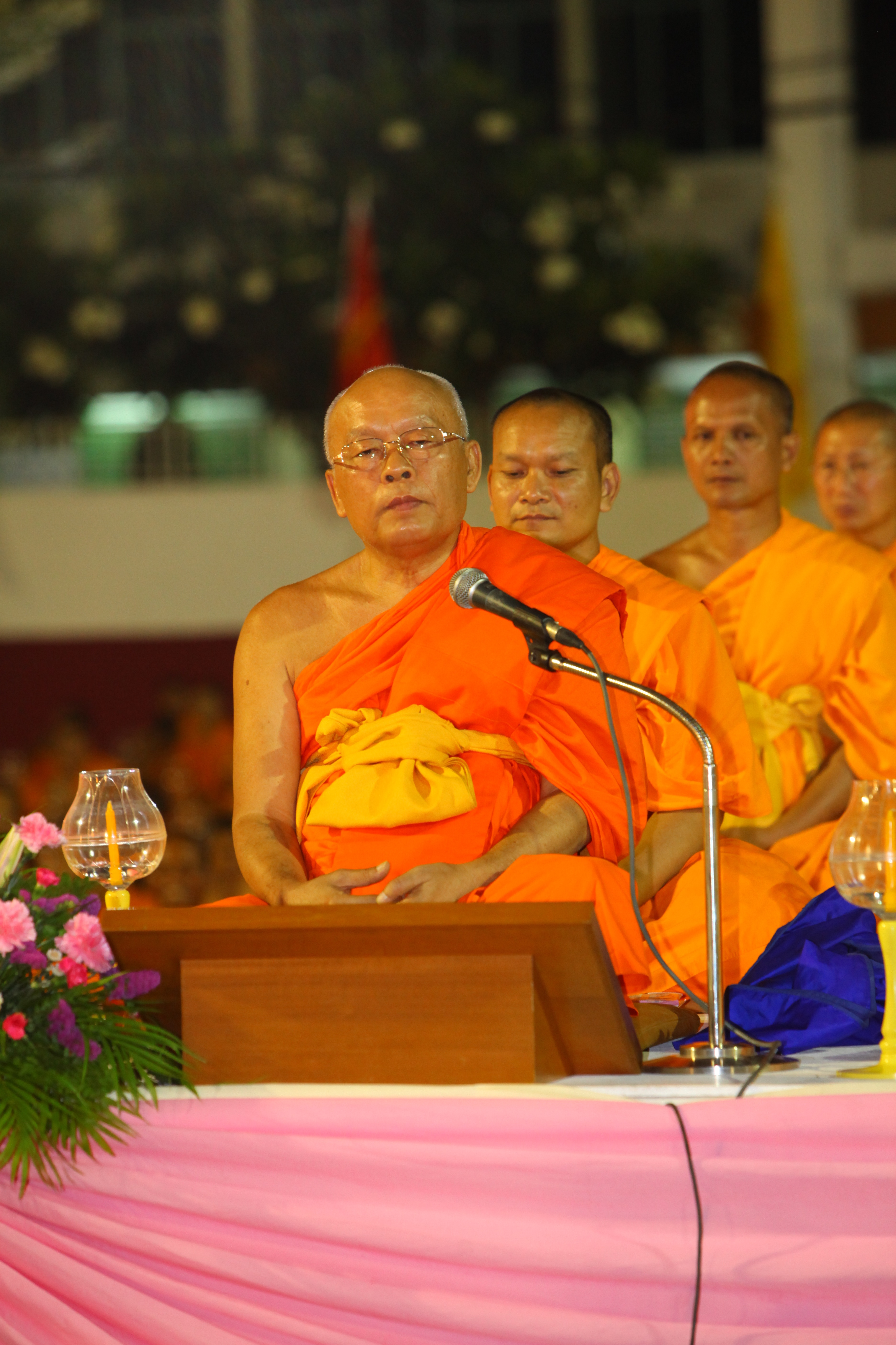 LP Suratecho is presiding over a ceremony